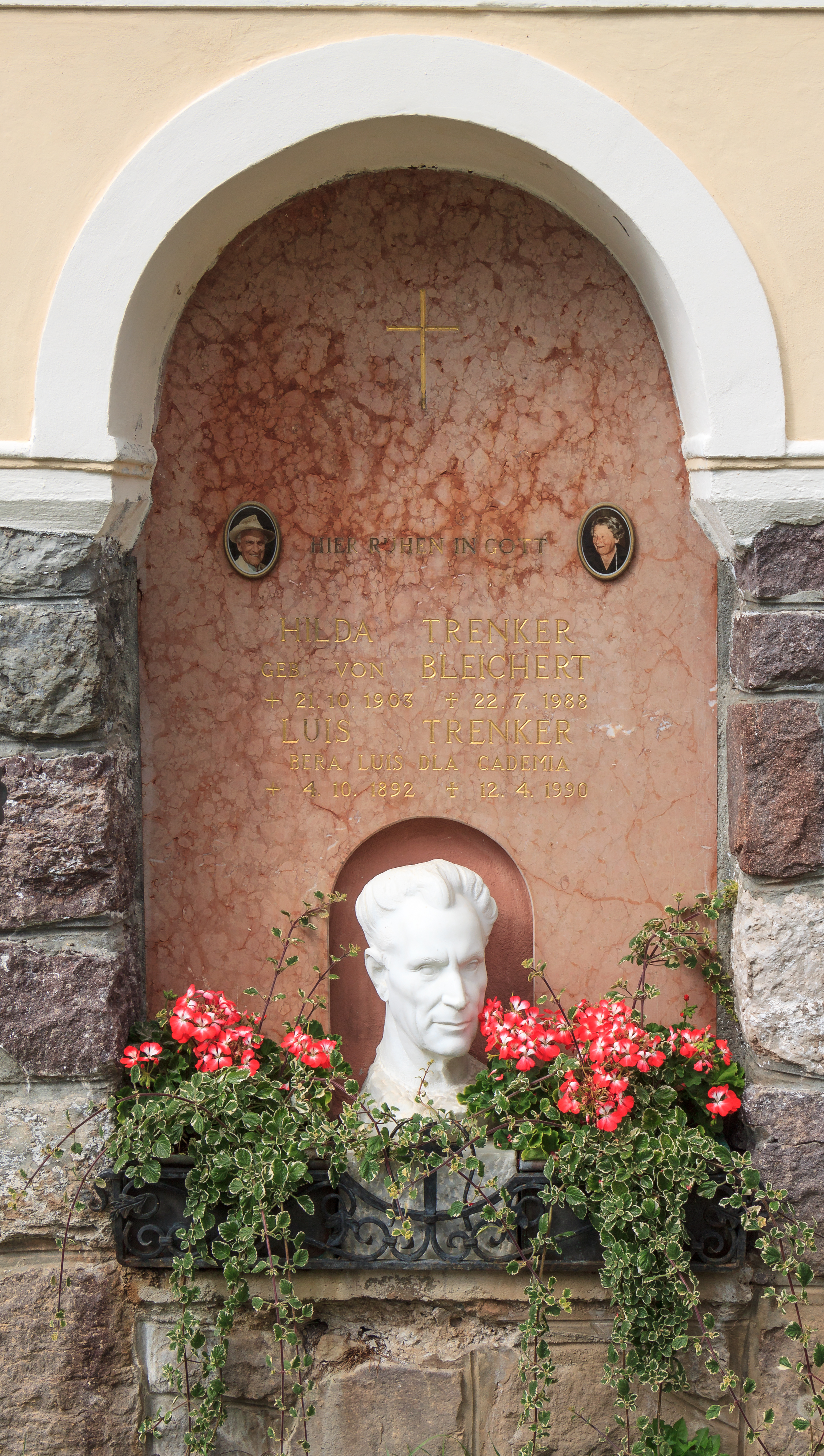 Memorial plaque for Luis and Hilda Trenker near their grave, cemetery of Urtijëi, South Tyrol, Italy.